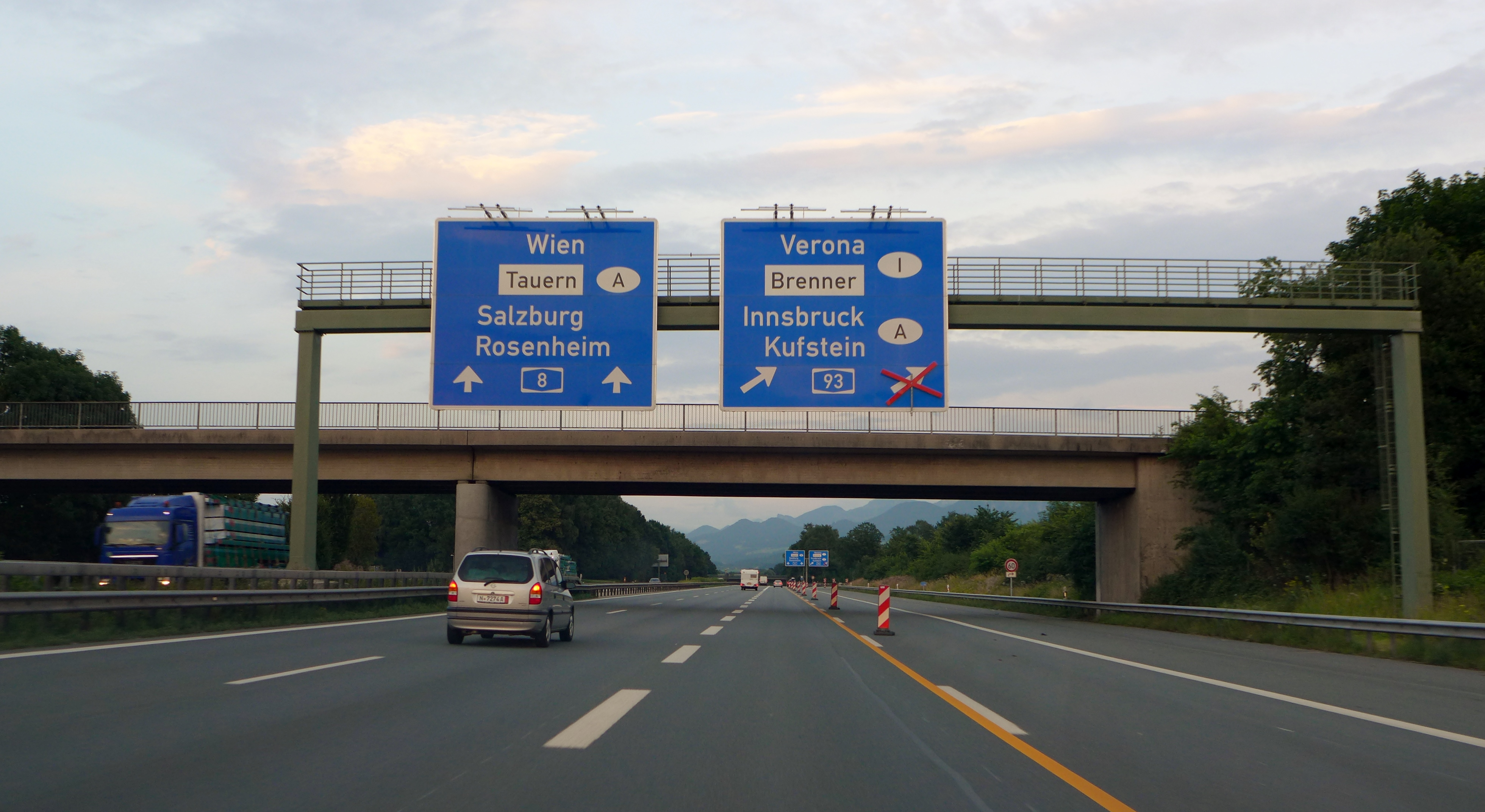 Dusk time view of the western approach of Bundesautobahn 8 to Autobahndreieck Inntal, near Raubling, Bavaria, Germany.